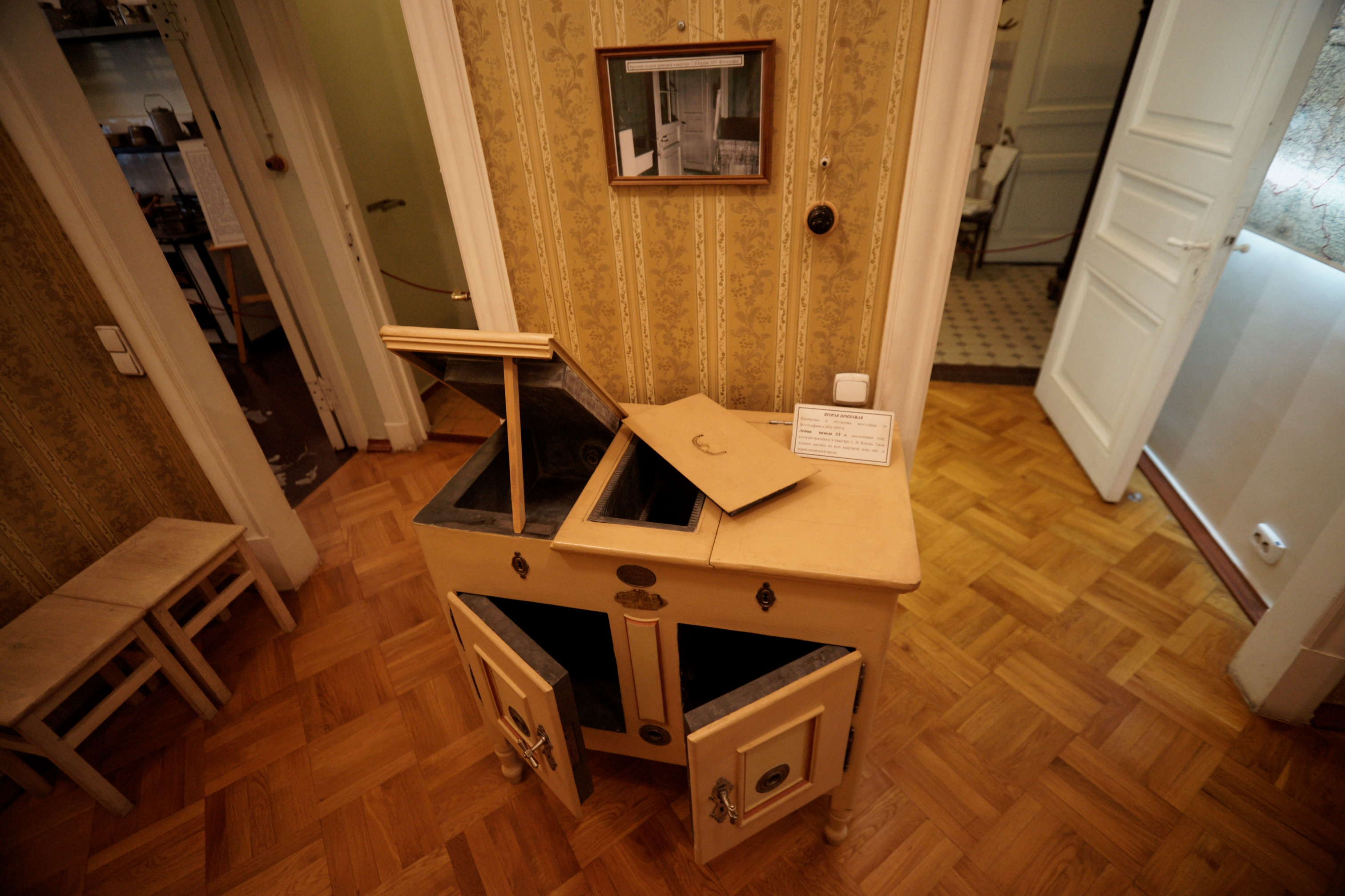 Санкт-Петербург / St Petersburg - Каменноостро́вский проспе́кт / Kamennoostrovsky Prospekt 26-28 - Museum Apartment S.M.Kirov (Серге́й Миро́нович Ки́ров)